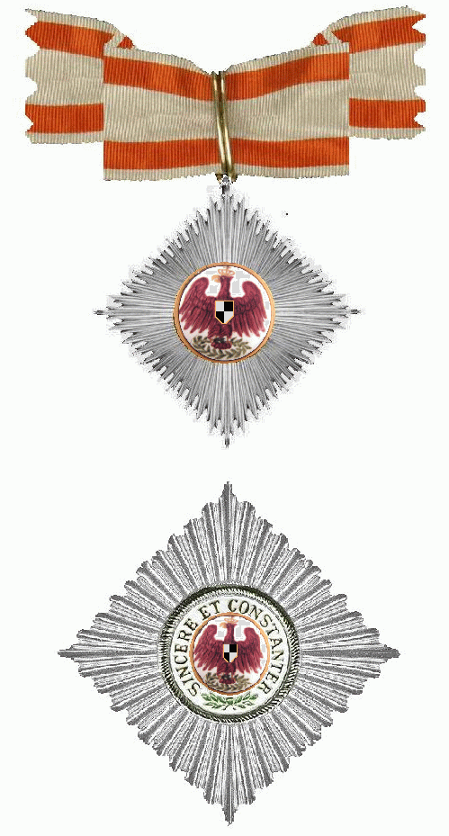 Order of the Red Eagle